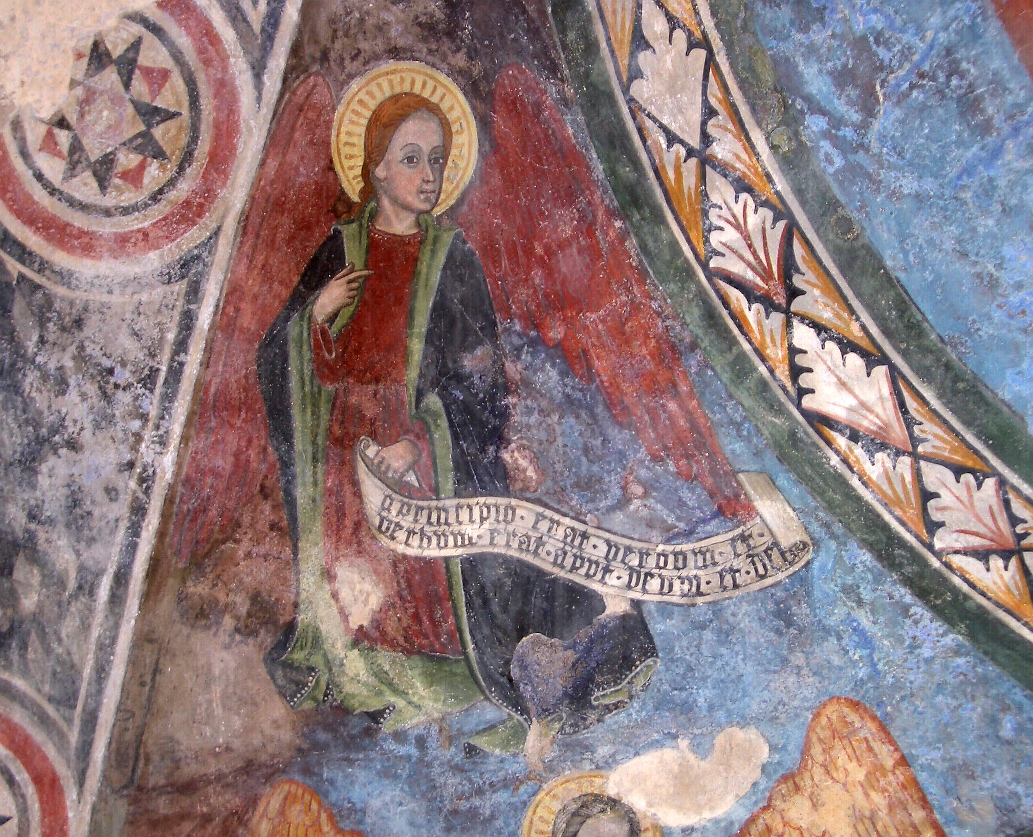 Unknown painter XIV centyry, Frescoes decorating the apse of the church , chiesa di Santa Croce, Sparone, Turin, Italy